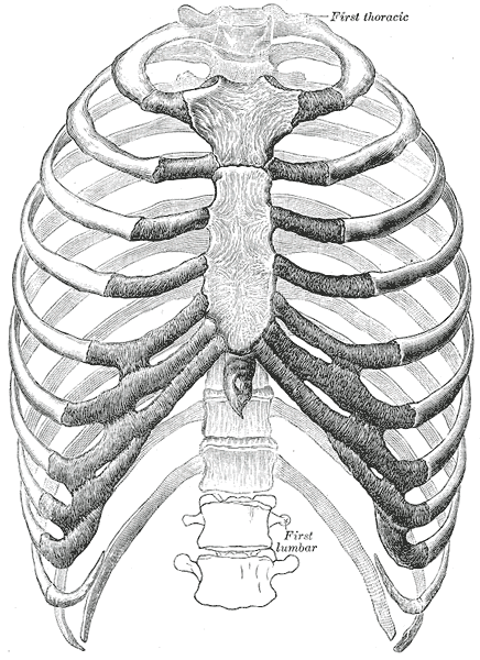 The thorax from in front. (Spalteholz.)